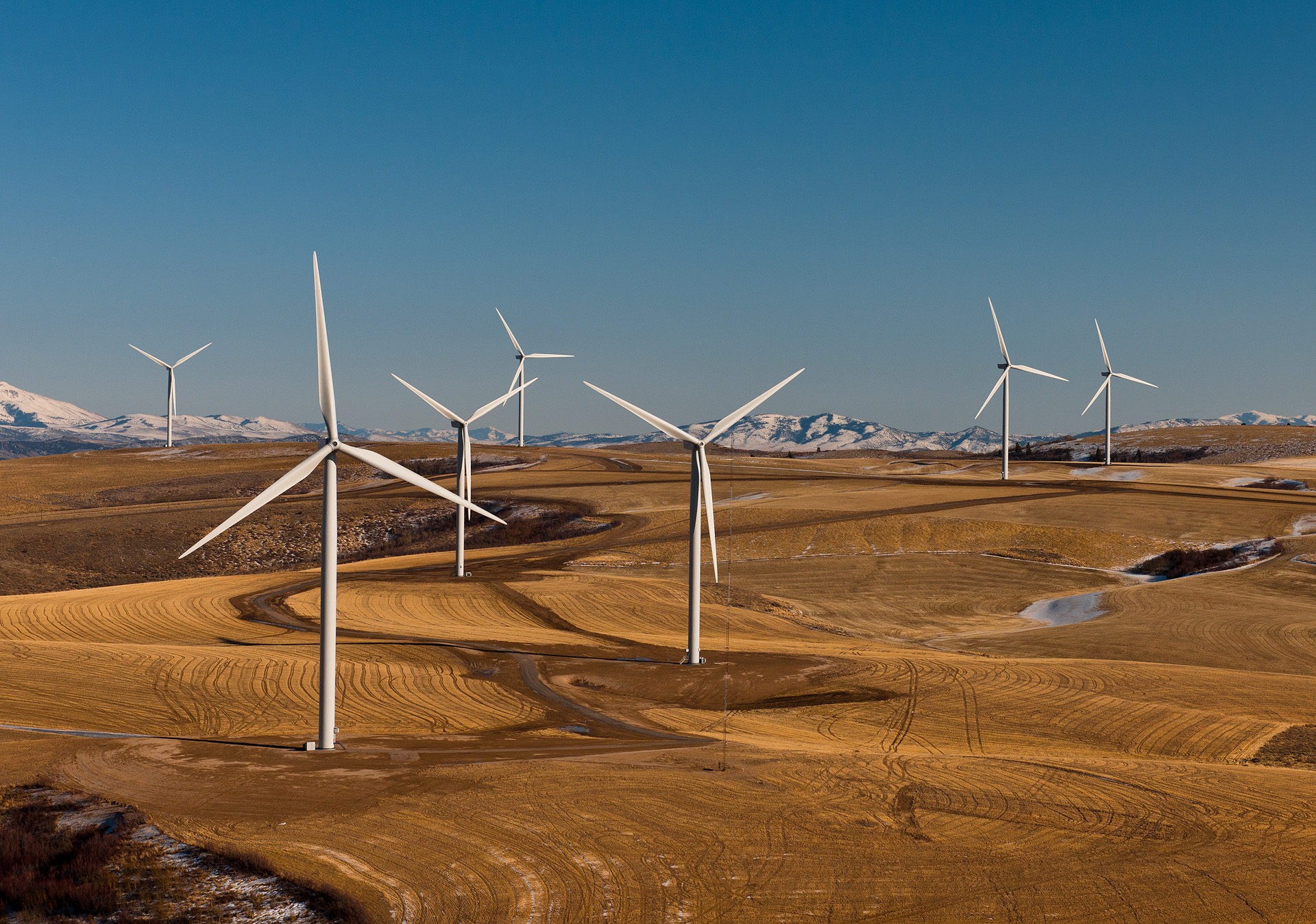 An aerial view of of the Power County wind farm - Power County, Idaho with Nordex N100/2500 turbines.